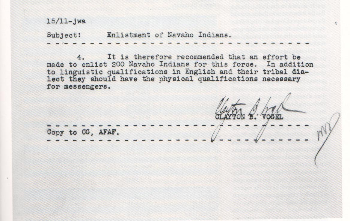 Memorandum regarding the enlistment of Navajo code talkers. Major General Clayton Vogel to the Commandant, United States Marine Corps. Page 2 of 2